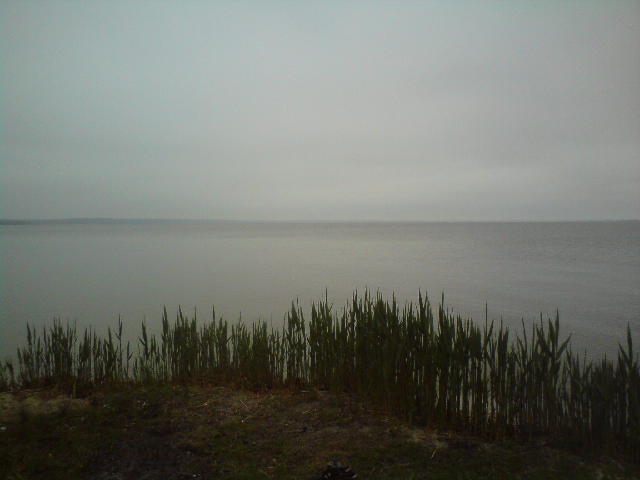 View of Bug Estuary from Volocka Kosa